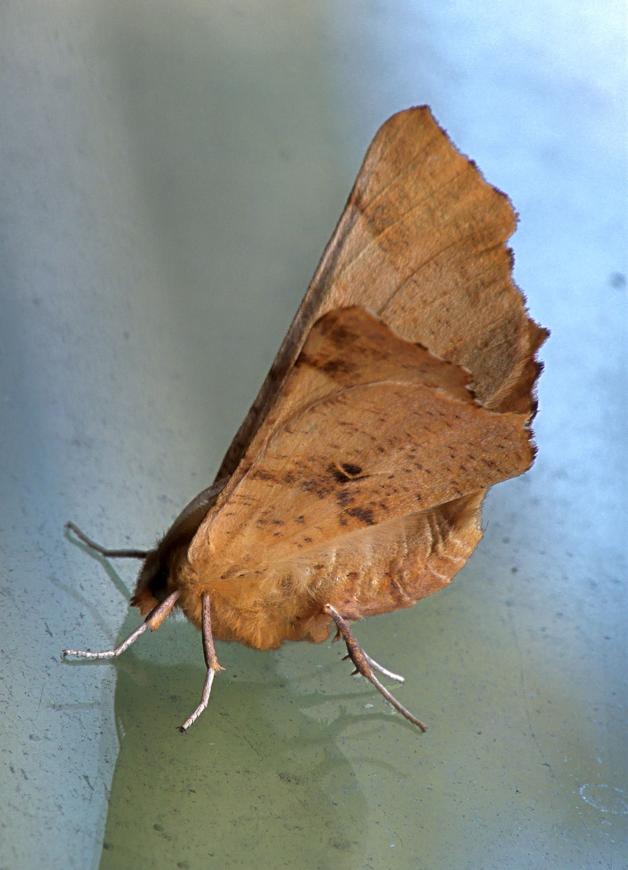 Ennomos autumnaria